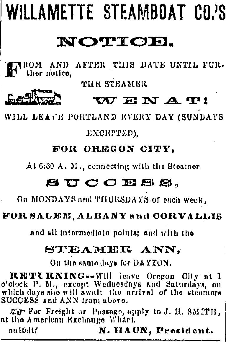 Willamette Steamboat Company advertisement, including steamers Wenat, Ann, and Success.